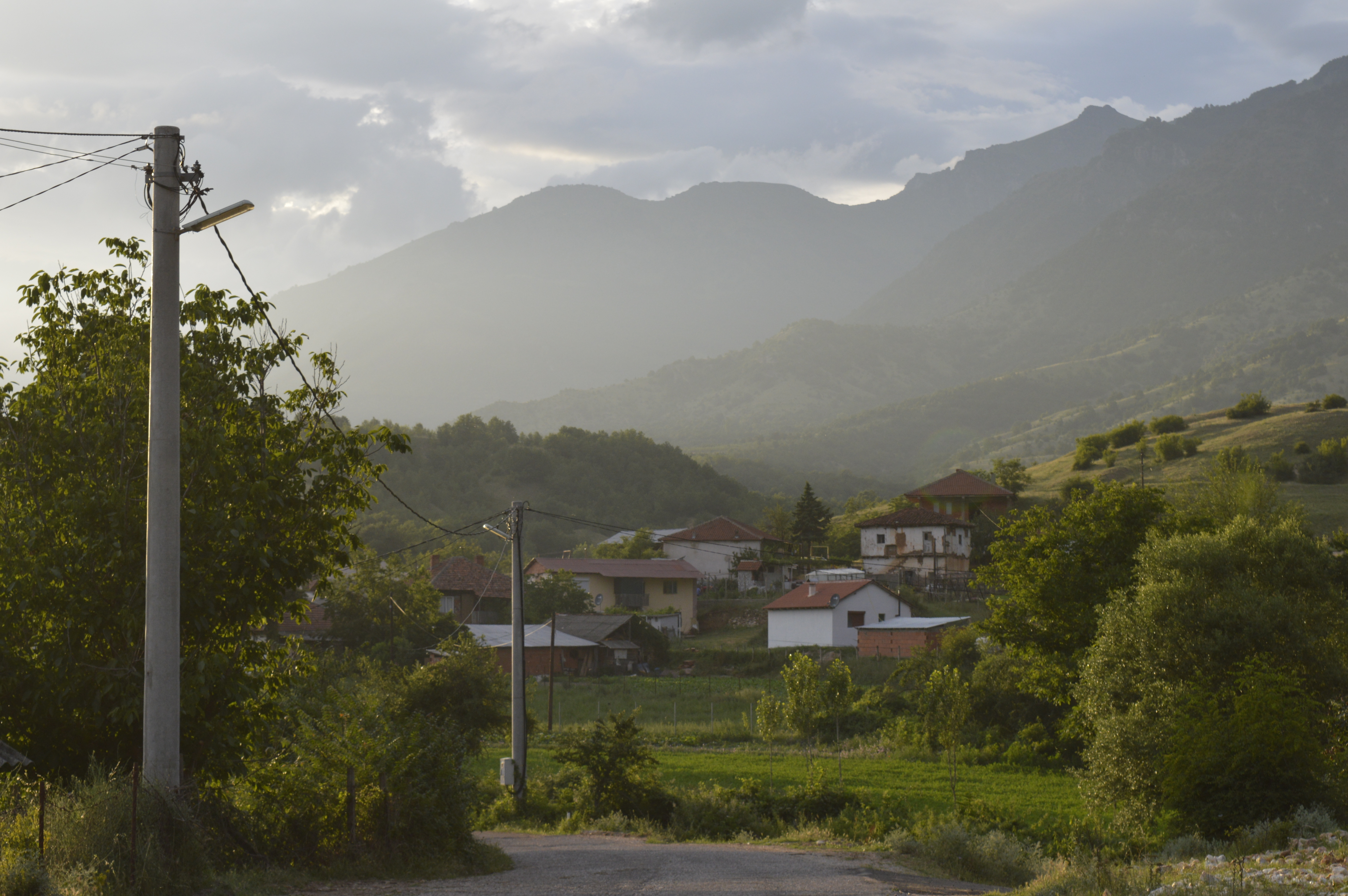 View of the village Sogle